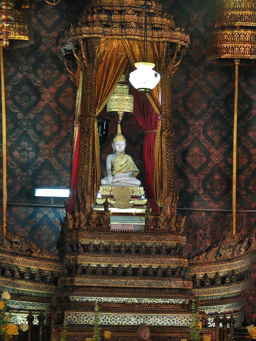 Statue of Luang Phor Khao, Ubosot at Wat Thepthidaram, Bangkok, Thailand.